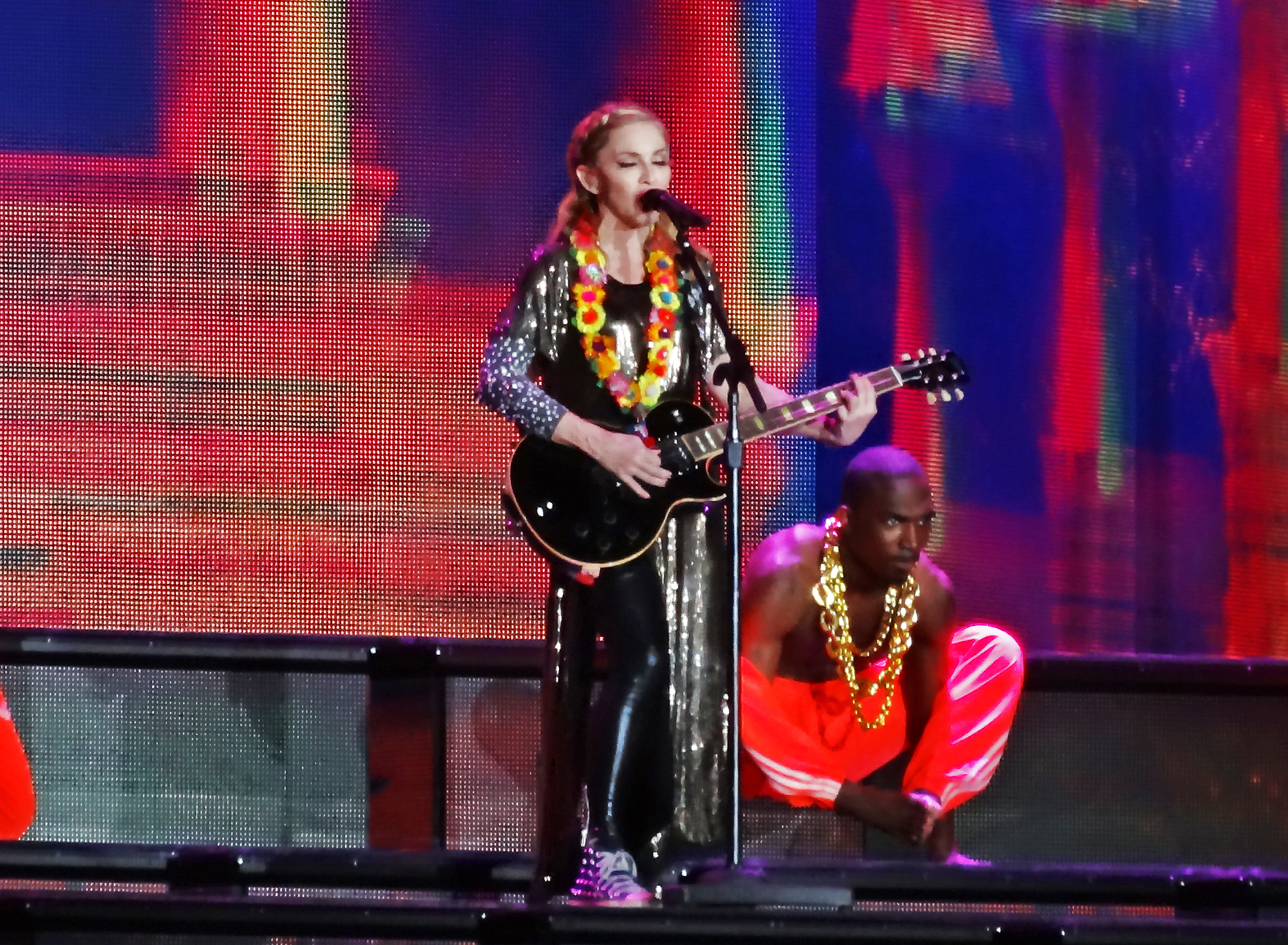 Madonna plays Yankee Stadium on 8 September 2012